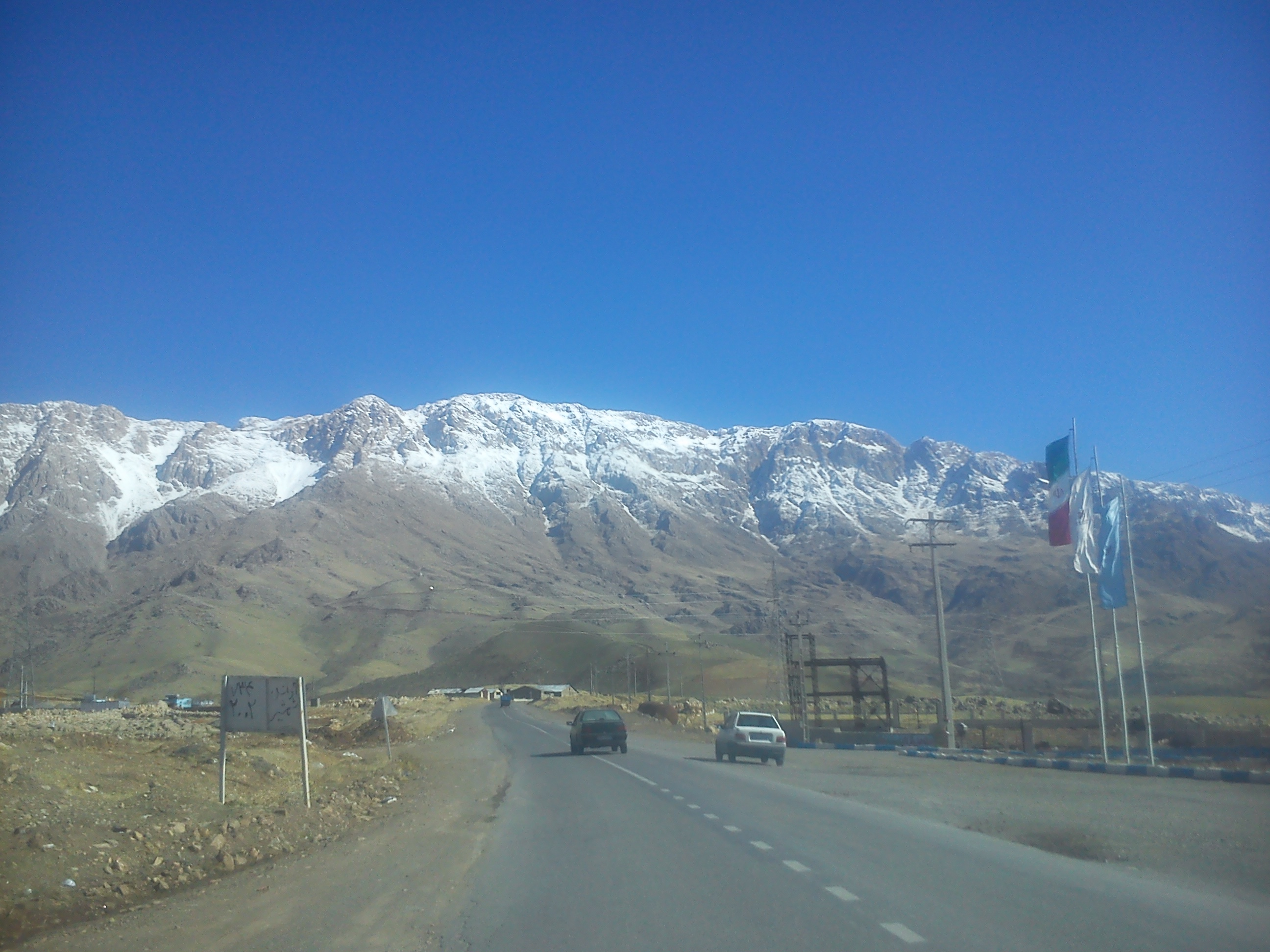 A view of Mount Shaho